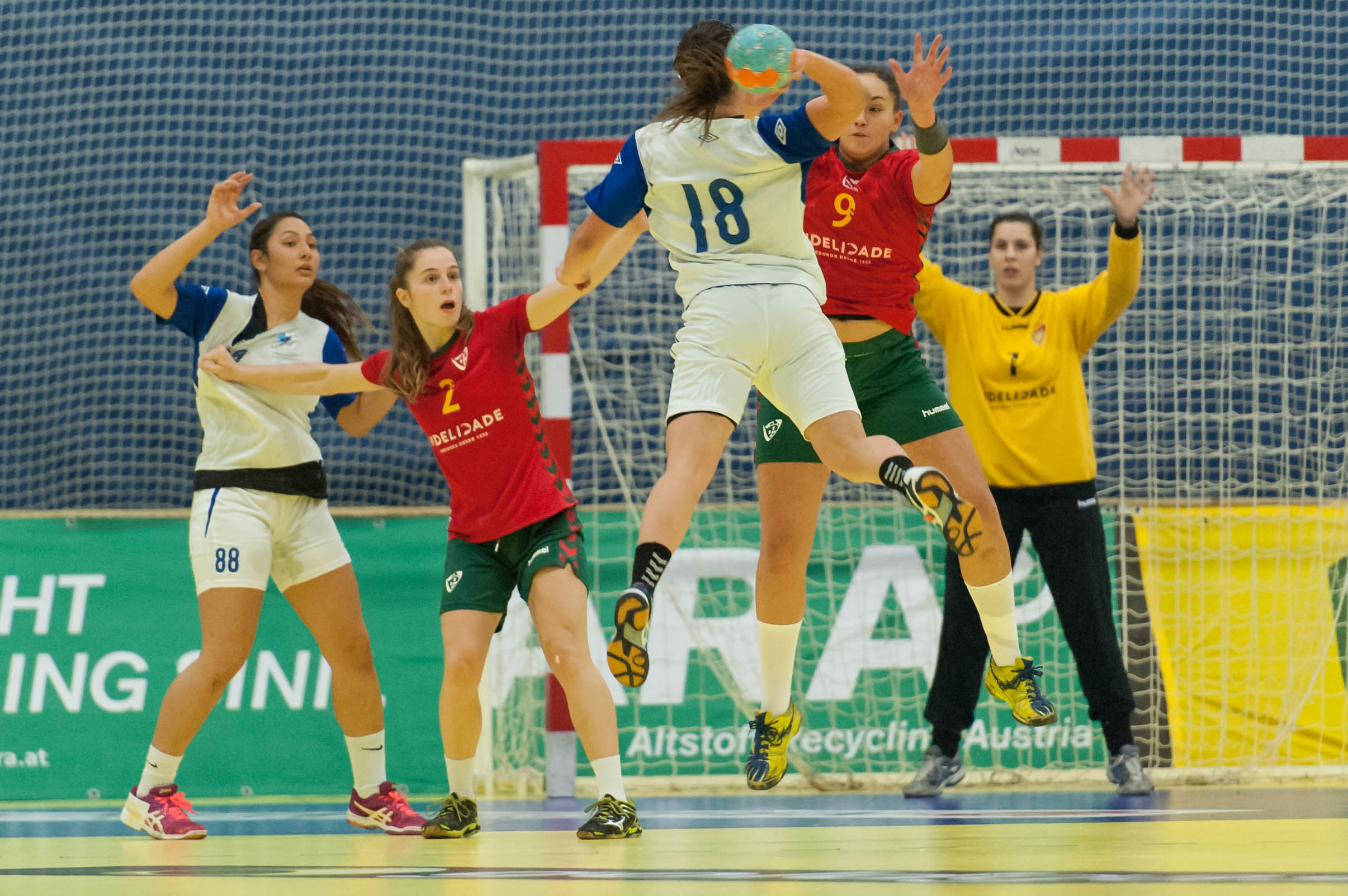 2015 World Women's Handball Championship Qualification 2014-12-06: Shira Vikrat, Soraia Fernandes